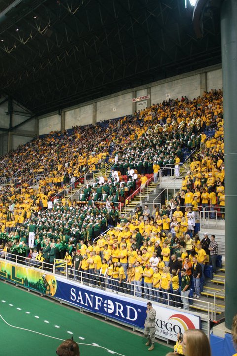 The 2010 NDSU GSMB performing in the stands at the Fargodome